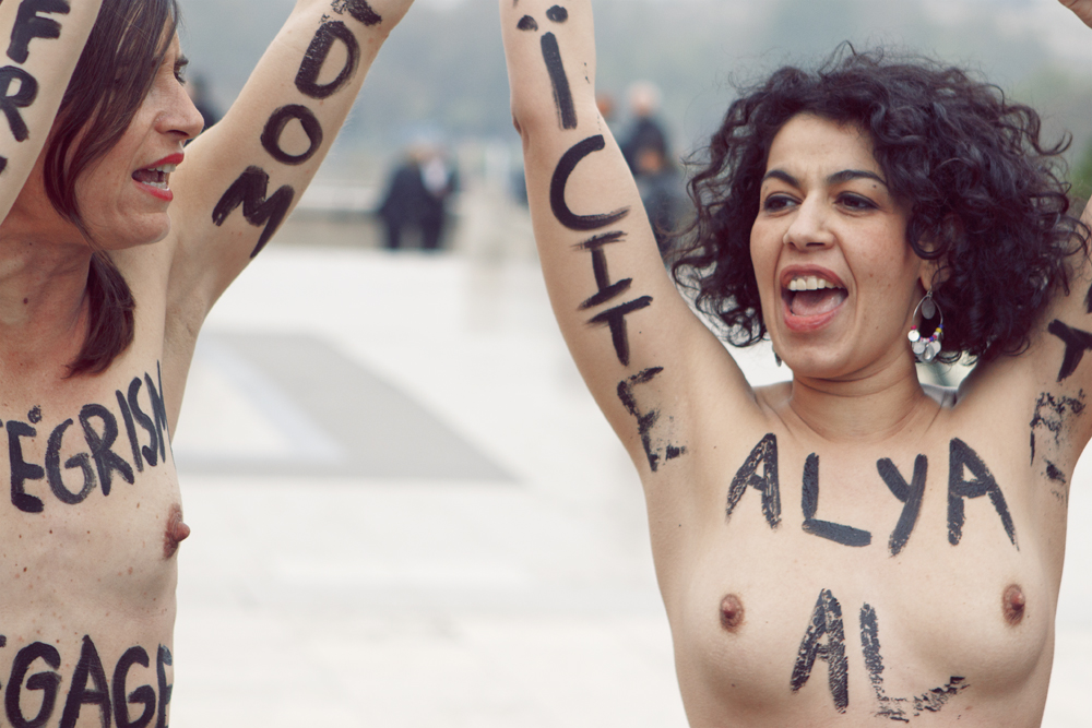 Demonstration by FEMEN in Paris in March 2012. (right) has been bodypainted with the name of Aliaa Magda Elmahdy (here written "Alya Al...")